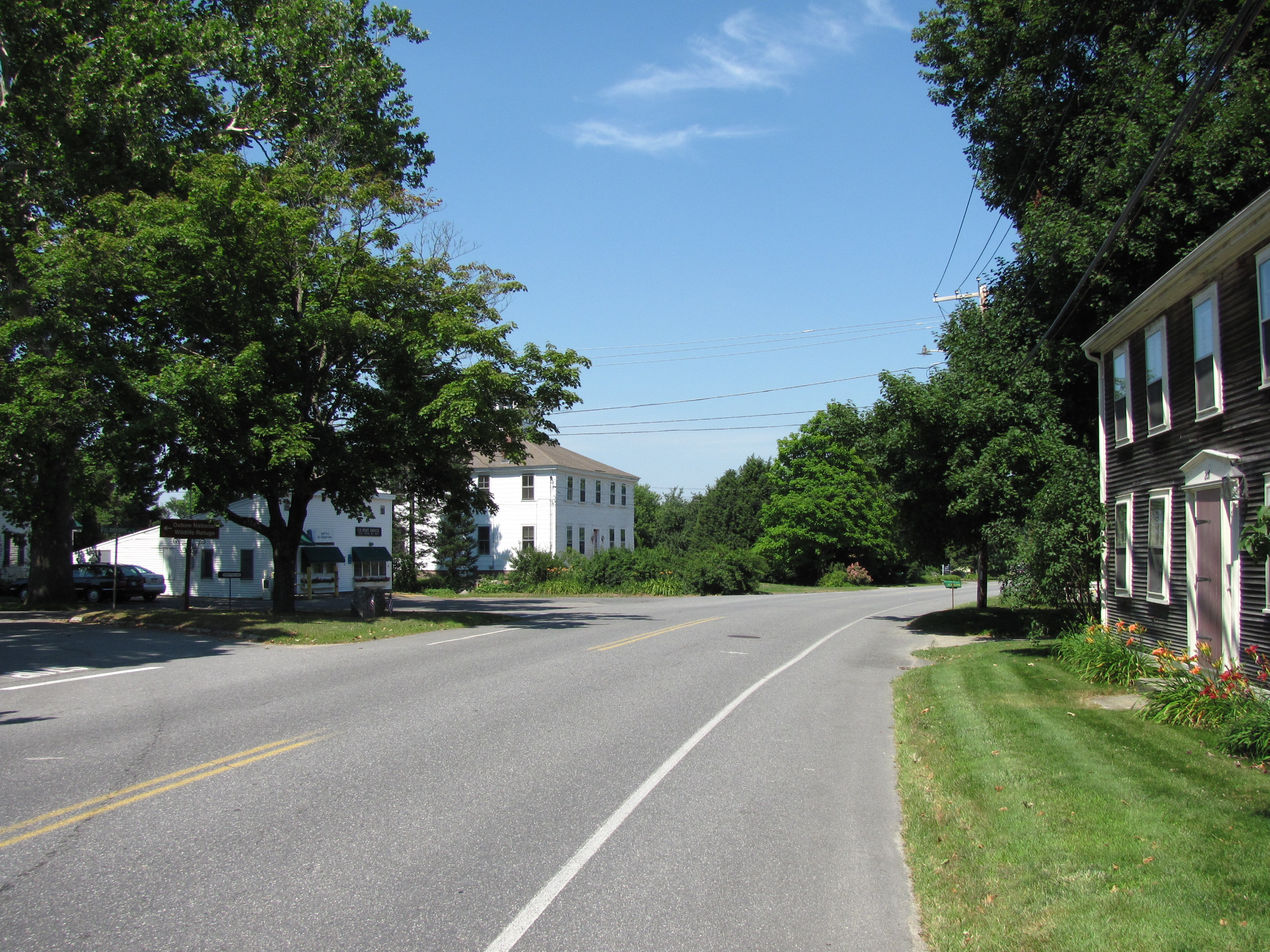 MA Route 110 northbound in Still River Massachusetts